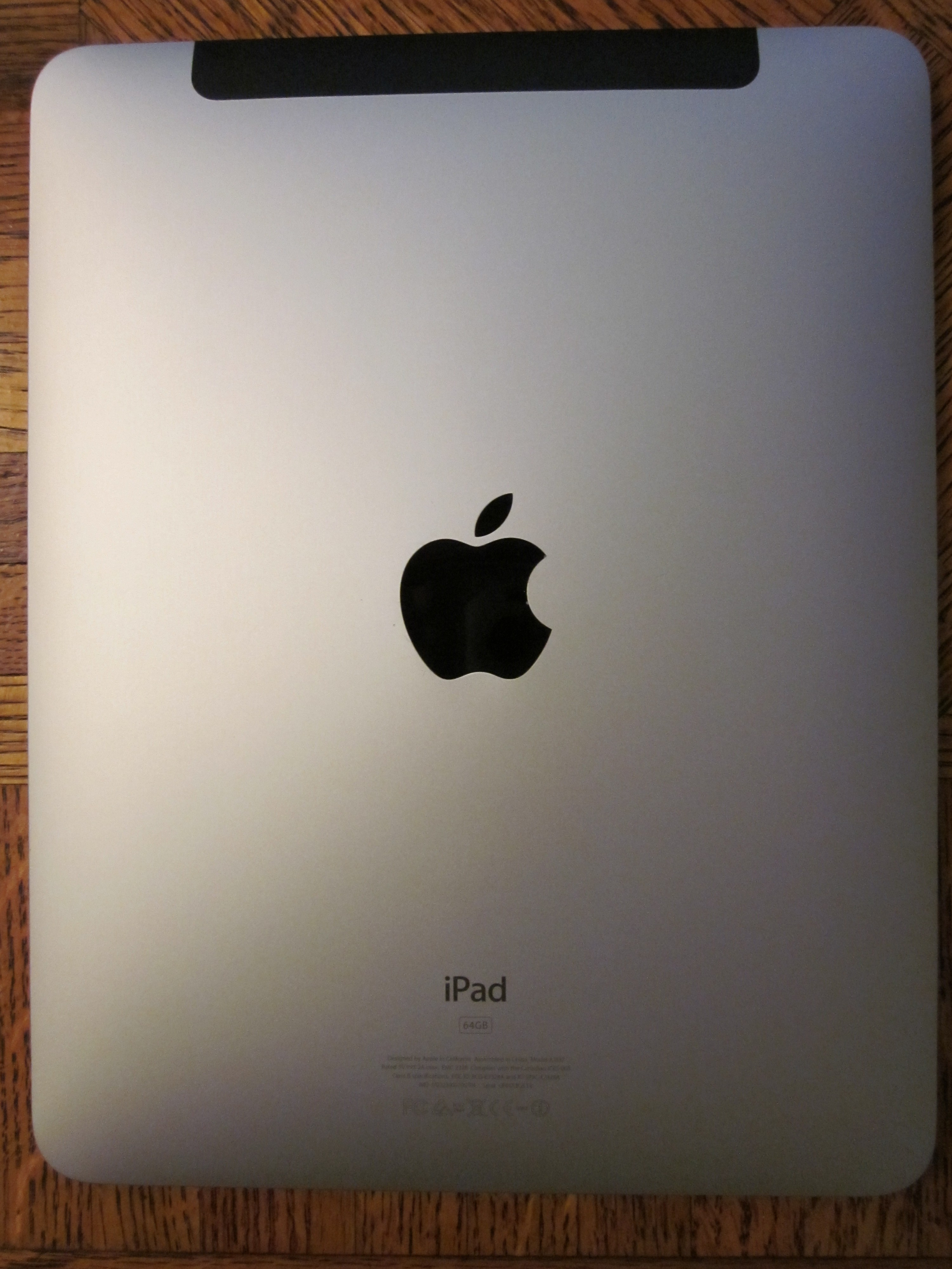 The underside of a 64 GB iPad.